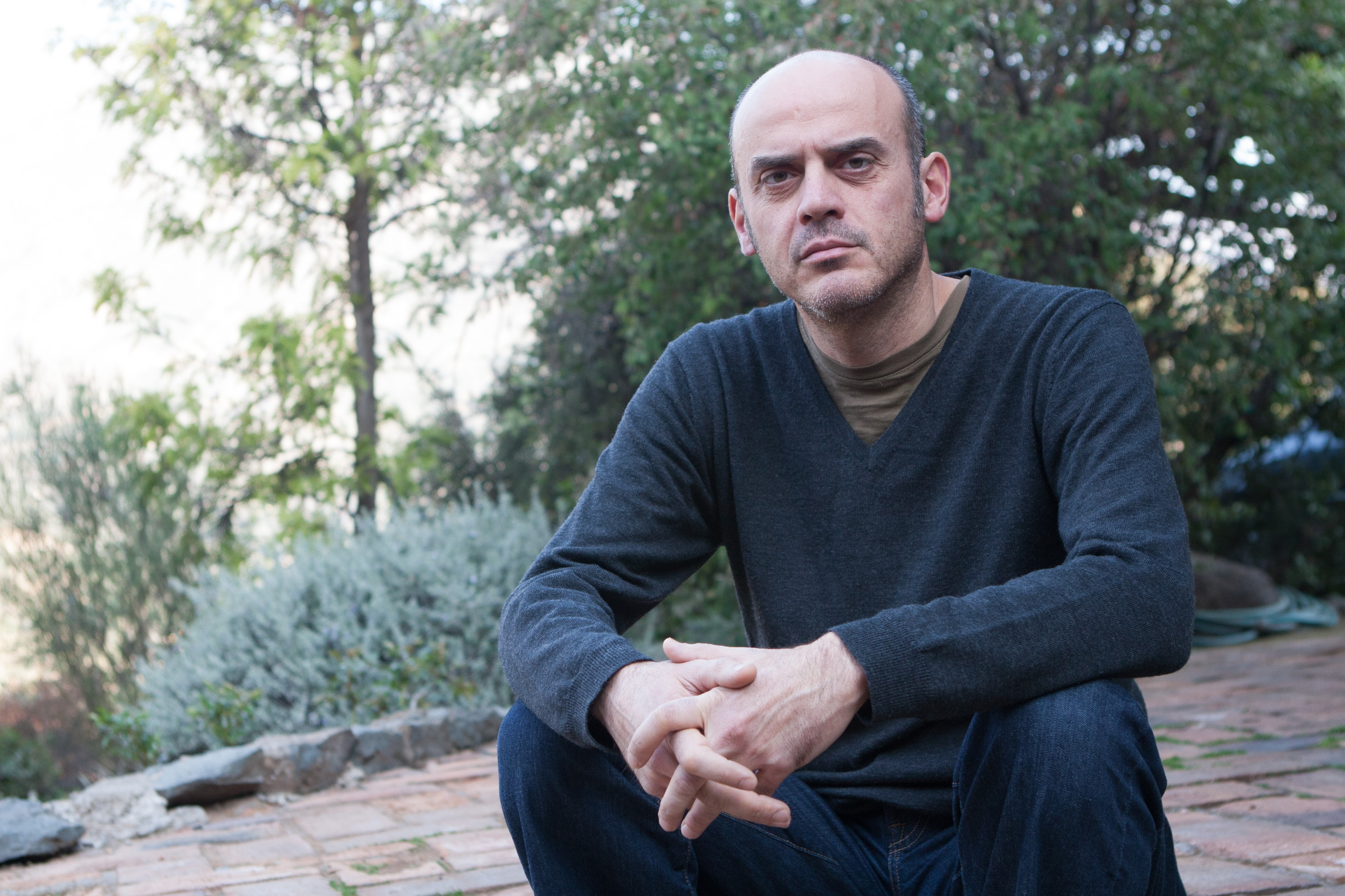 Chilean writer Sergio Missana. Photograph by Ramsay Turnbull